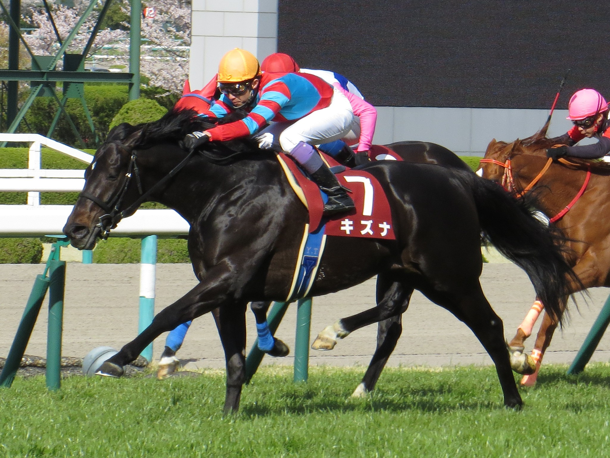 Kizuna (58th Osaka Hai in Hanshin Racecourse).